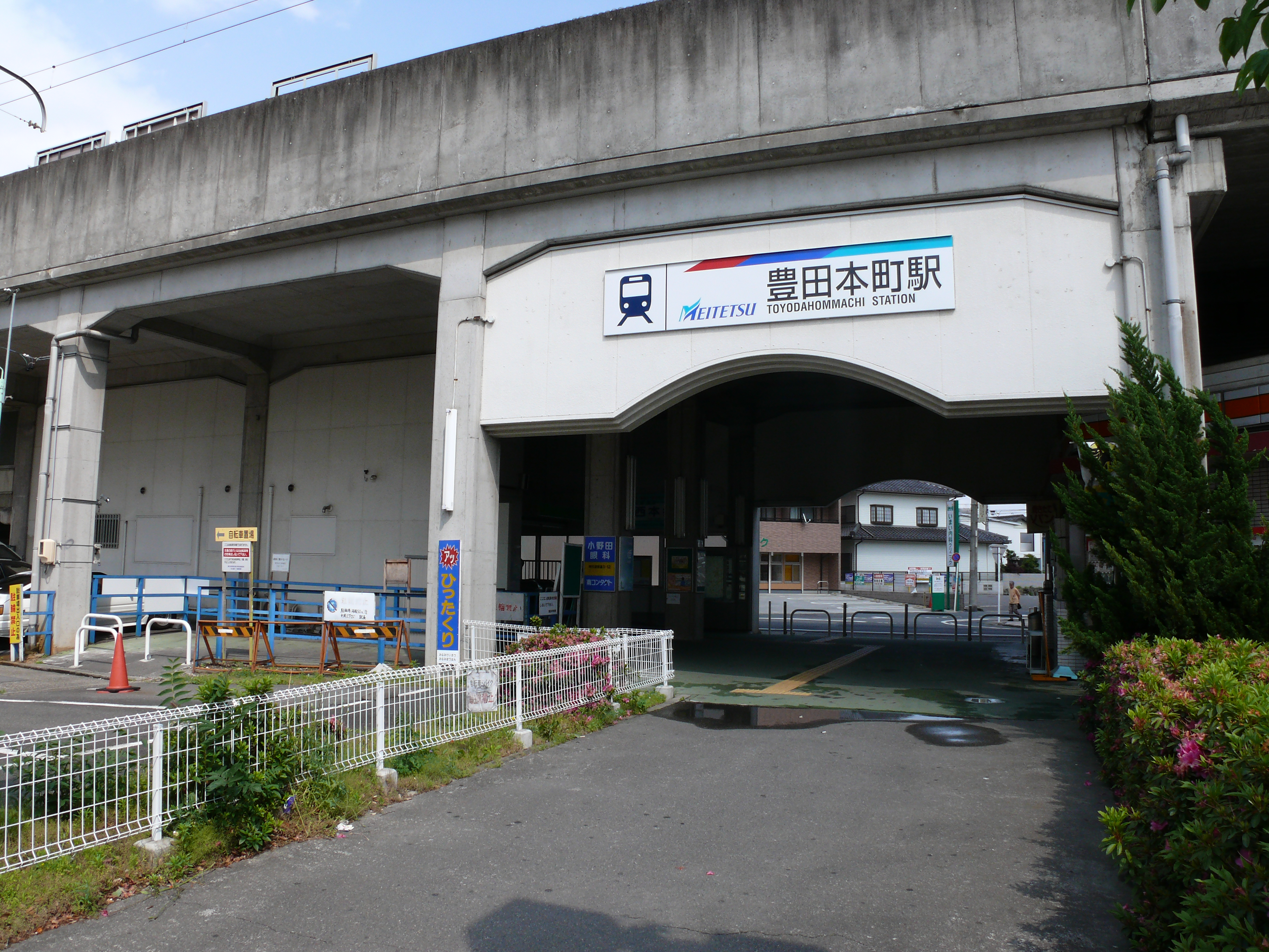 Meitetsu Toyoda Hommachi Station.